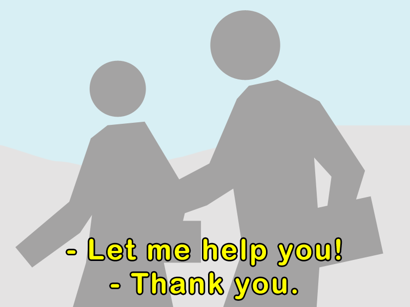 Example of a television broadcast with subtitles.